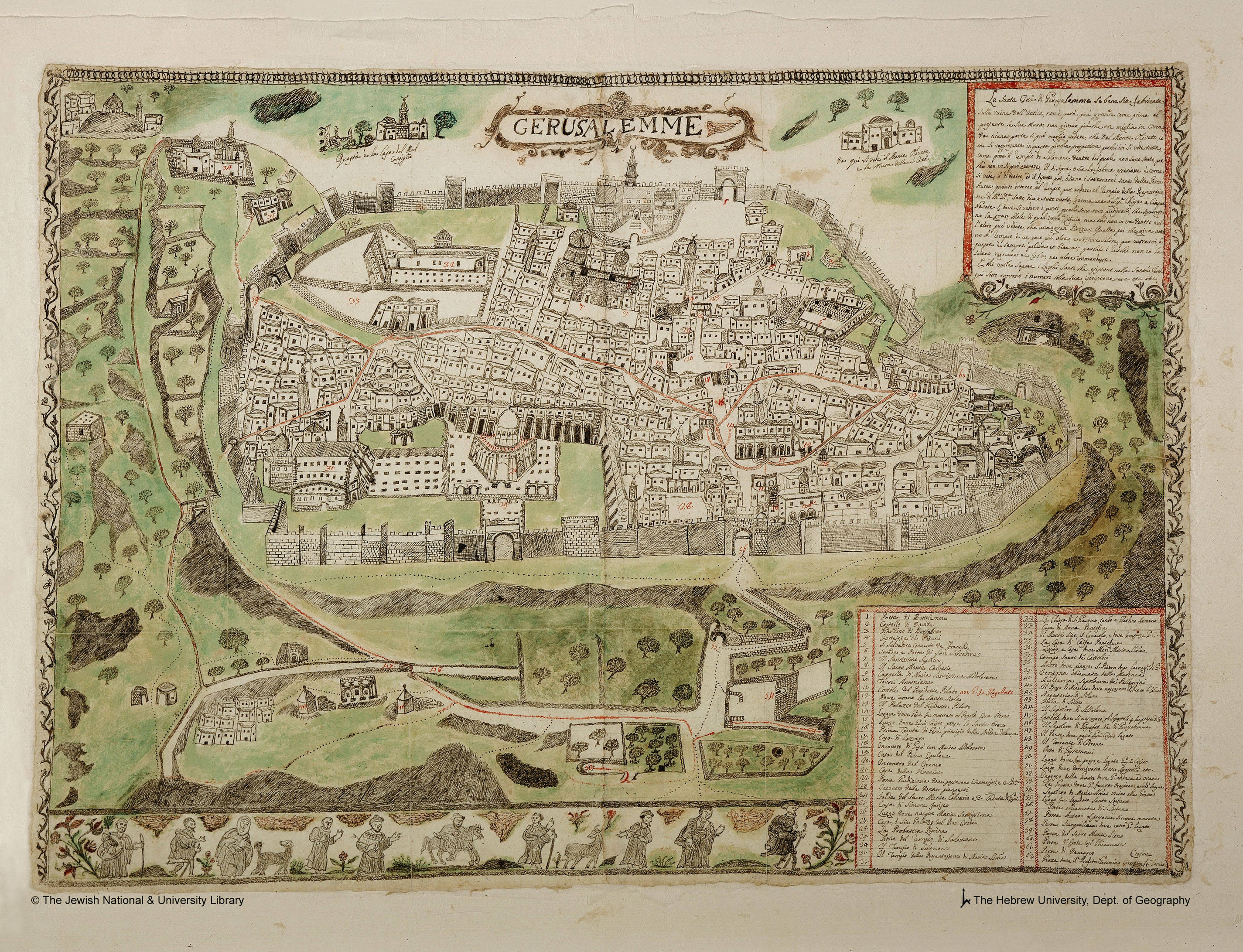 map of jerusalem from the 16th century. Gerusalemme (from Italian "Jerusalem") is the name of a drawing from the end of the 16th century, probably made by an Italian monk. The drawing includes general description of the holy city Jerusalem (Italian: "La santa città di Gerusalemme"), pilgrims on the way to Jerusalem and 62 marks of places and their names.